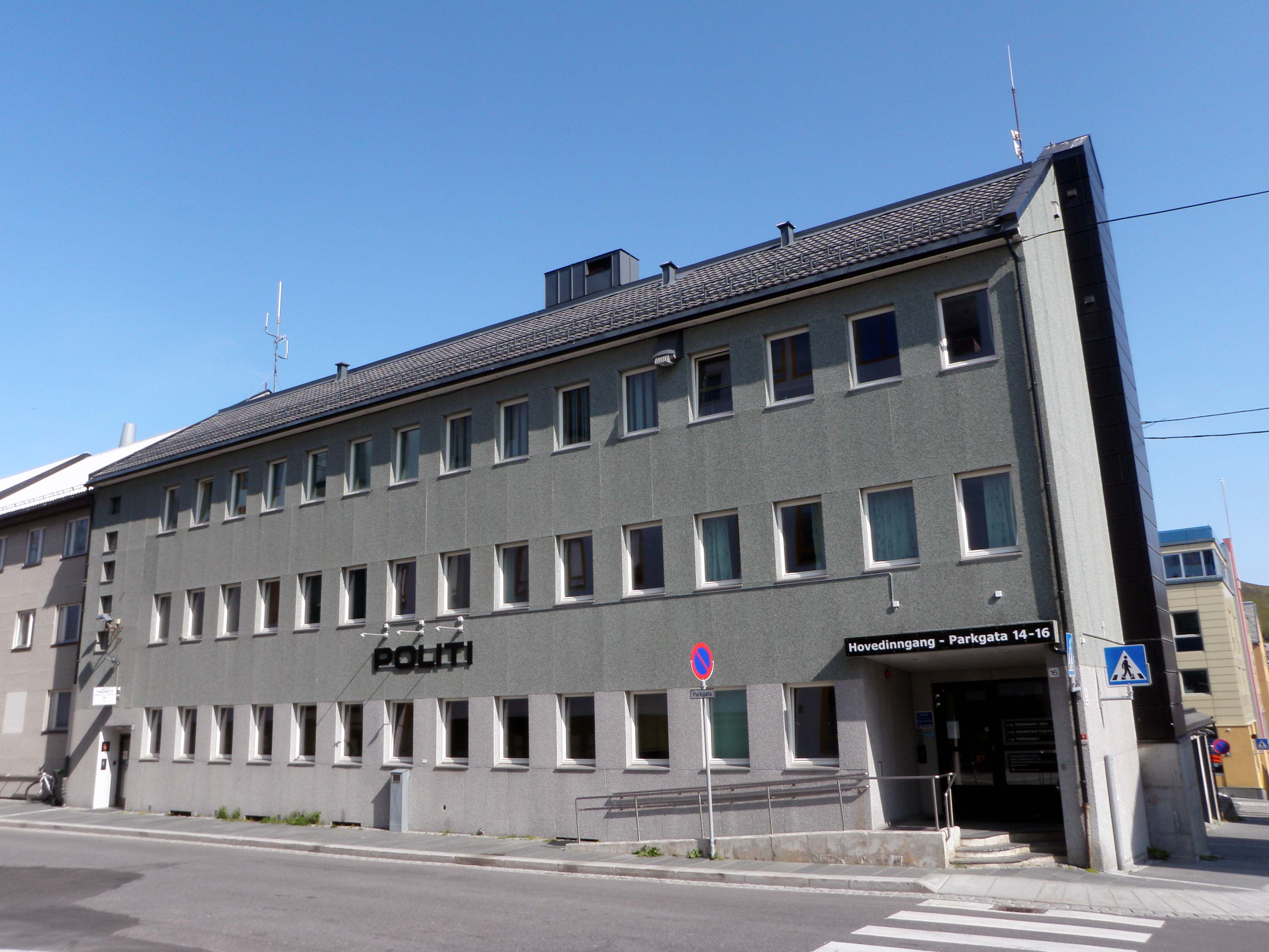 Hammerfest Police Station, headquarters of Western Finnmark Police District, in Hammerfest, Norway. Hammerfest District Court is located in the building, with an entrance on the left.